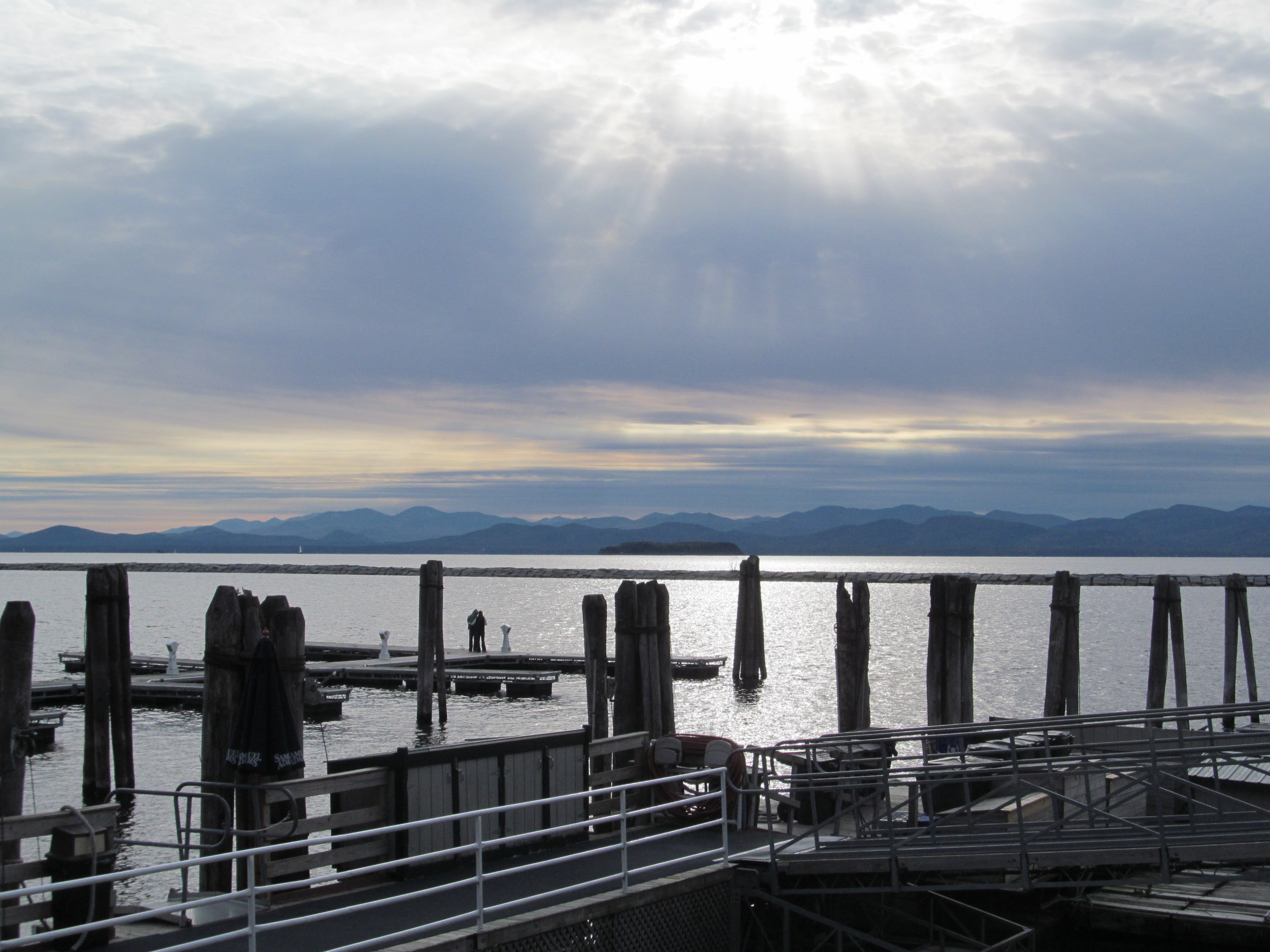 Lake Champlain, Burlington Vermont